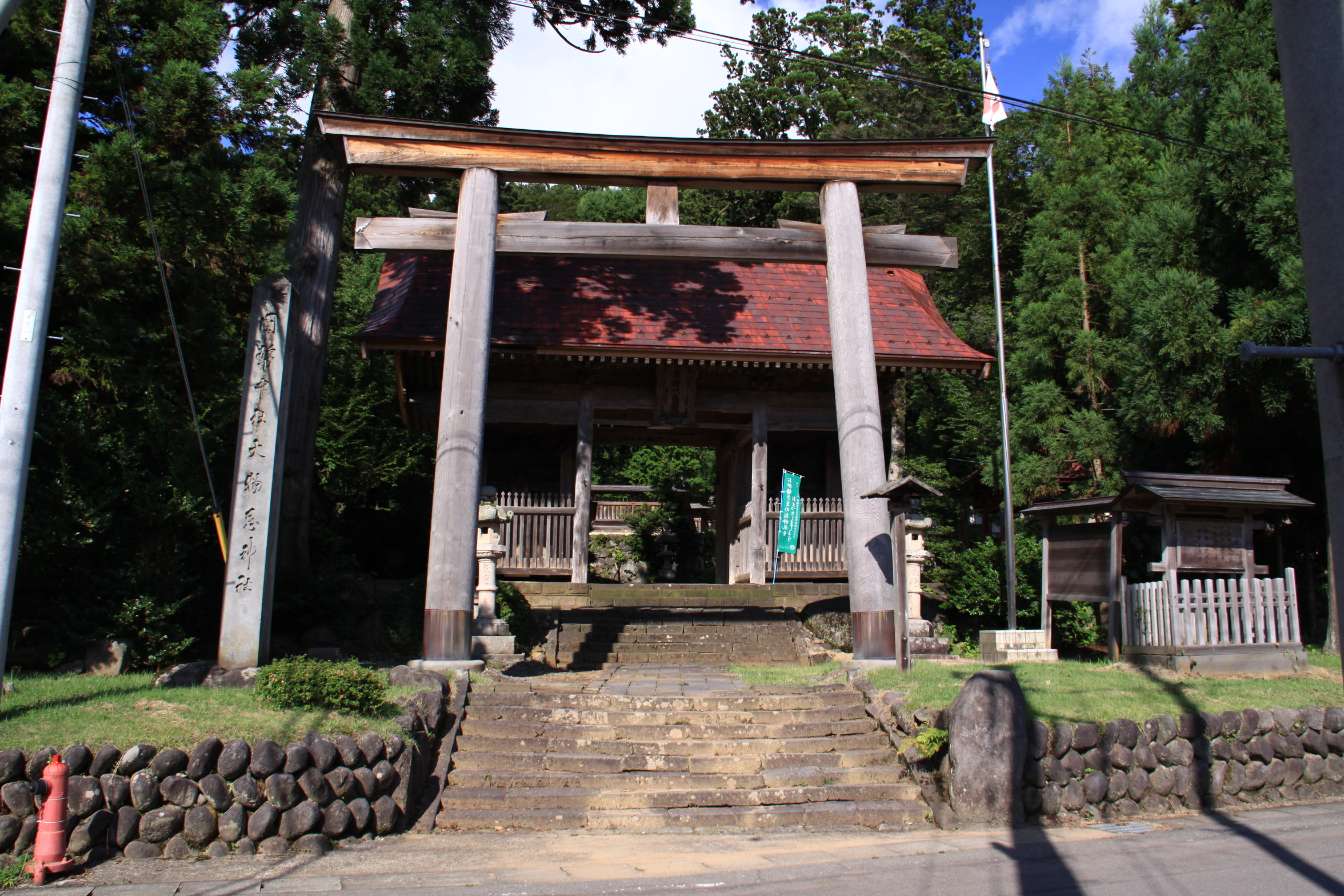 ChoukaisanOomonoimi-jinja Warabioka-kuchinomiya Gate